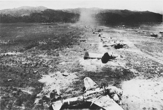 Damaged japanese airplanes. The Fifth Air Force, in a series of low-level bombing attacks, found enemy aircraft parked wing tip to wing tip along the runways. Hollandia, early April 1944